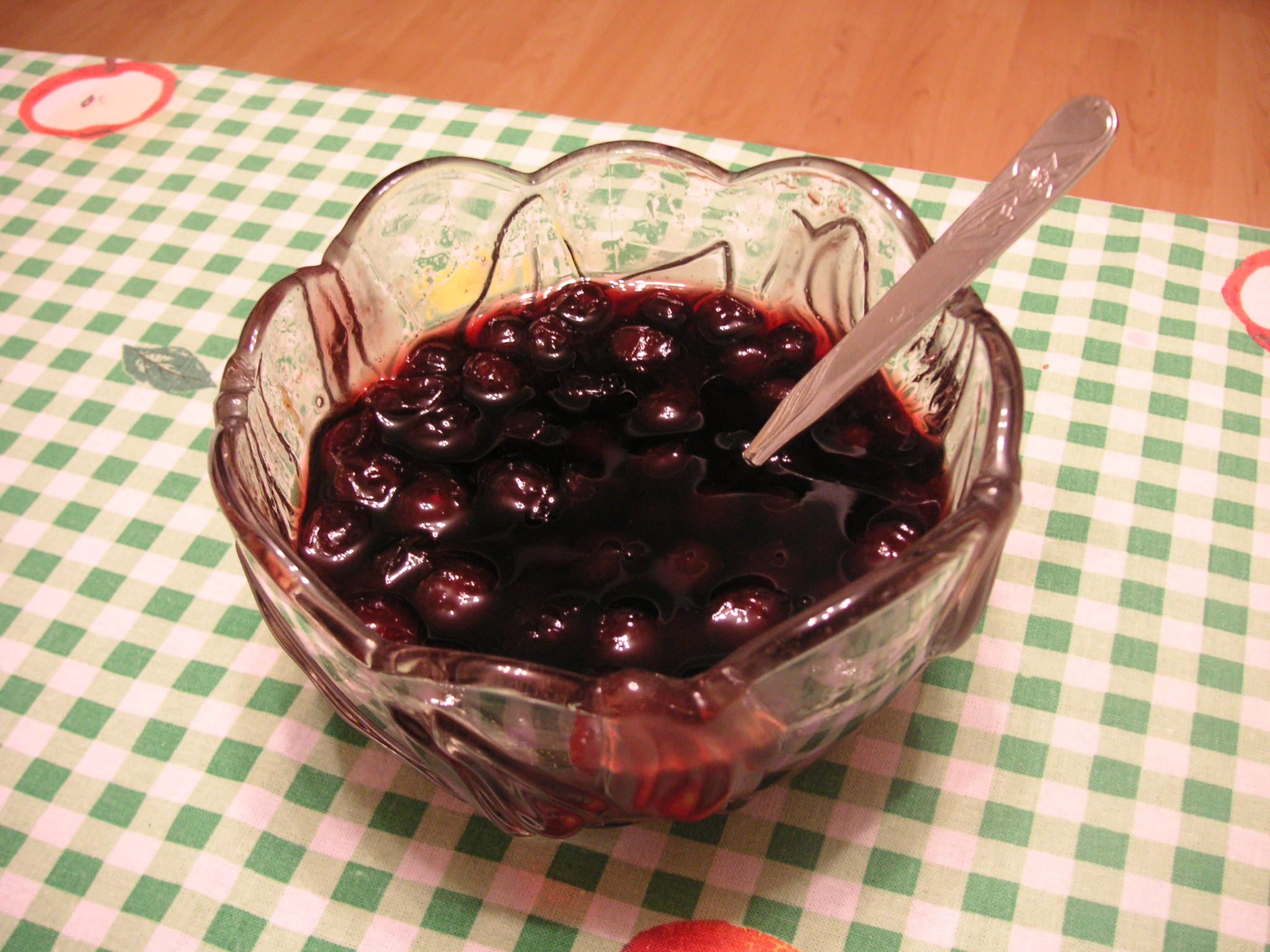 A glas of varenie on a table.